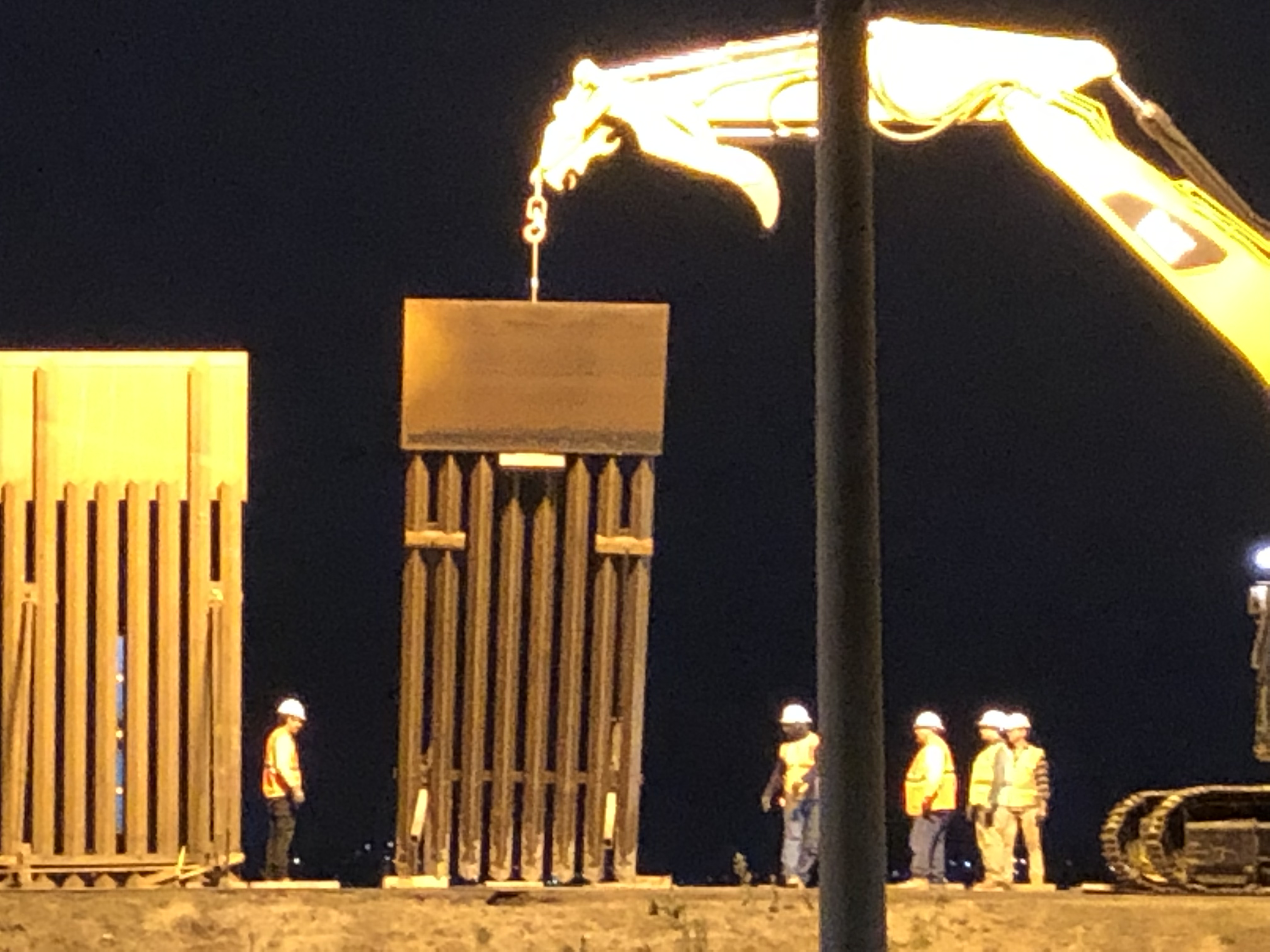 Building the wall.